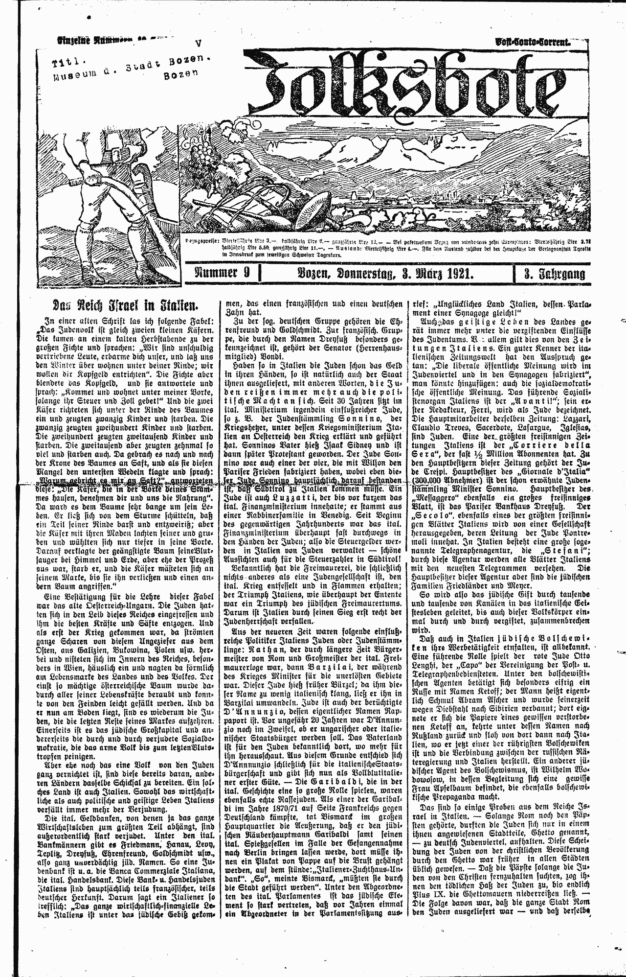 Antisemitic lead-article by Michael Gamper's Volksbote, March 3,1921 1921